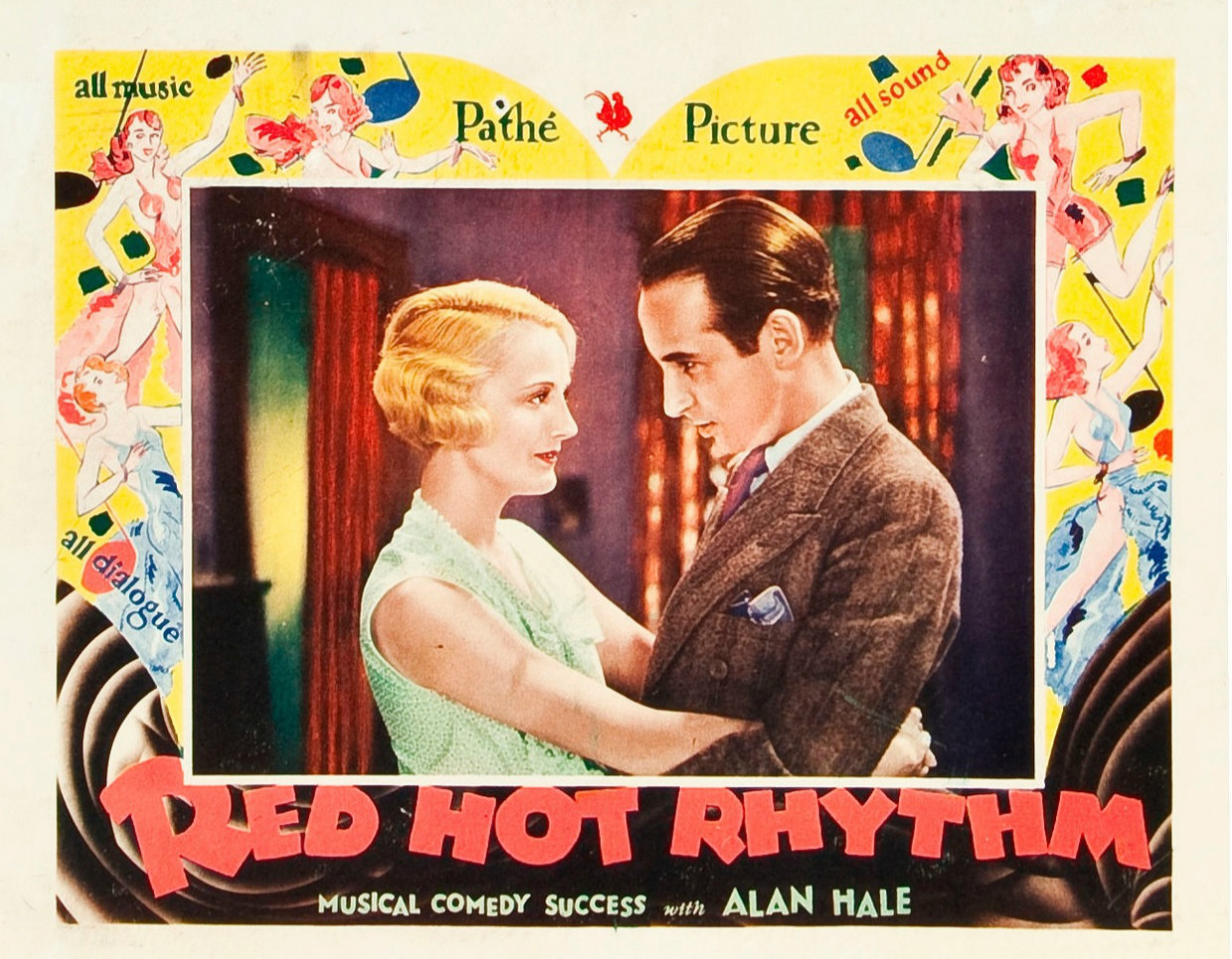 Lobby card for the American musical comedy film Red Hot Rhythm (1929).